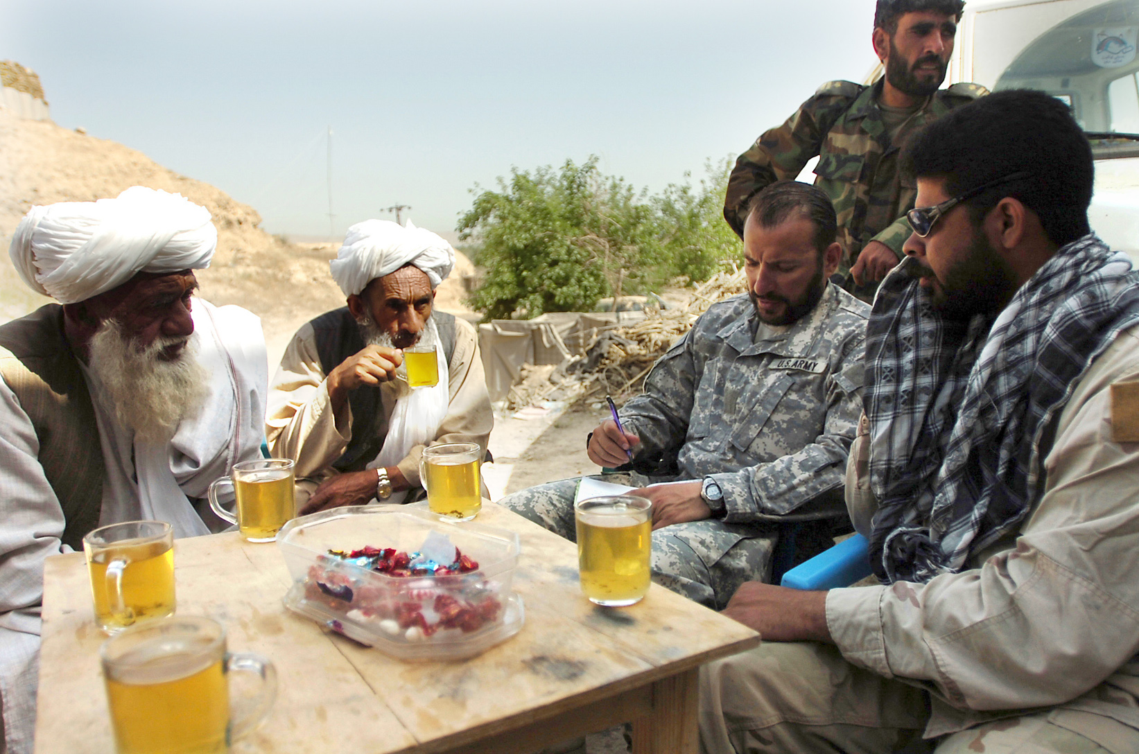 A Special Forces company commander meets with village elders and members of the 1st Kandak, 209th Afghan National Army Corps April 10, 2007, to discuss military operations in the Sangin District area at an undisclosed forward operating base in Helmand Province, Afghanistan.